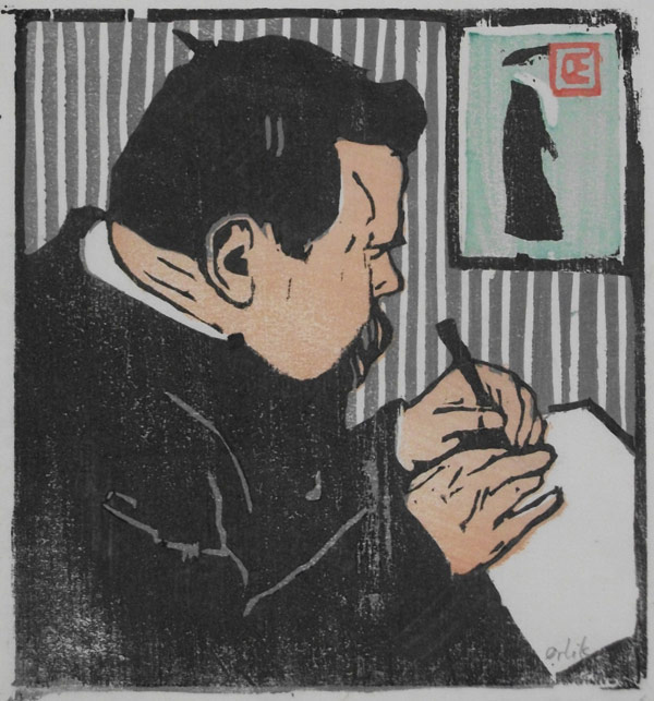 Portrait of Bernhard Pankok